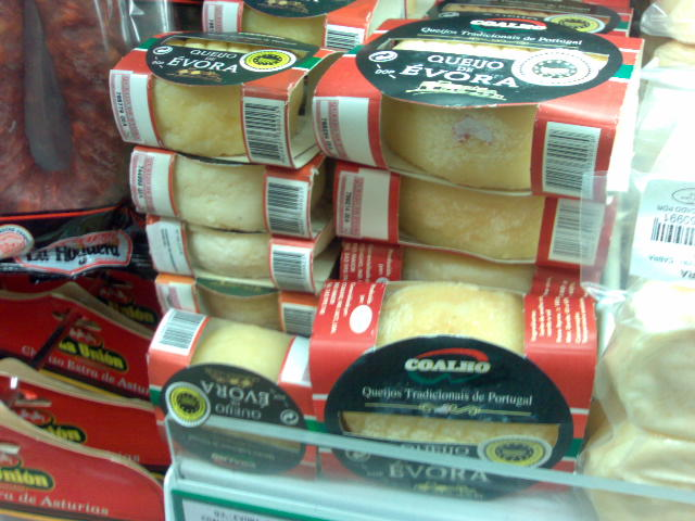 "Queijo de Évora", a portuguese cheese from the city of Évora.